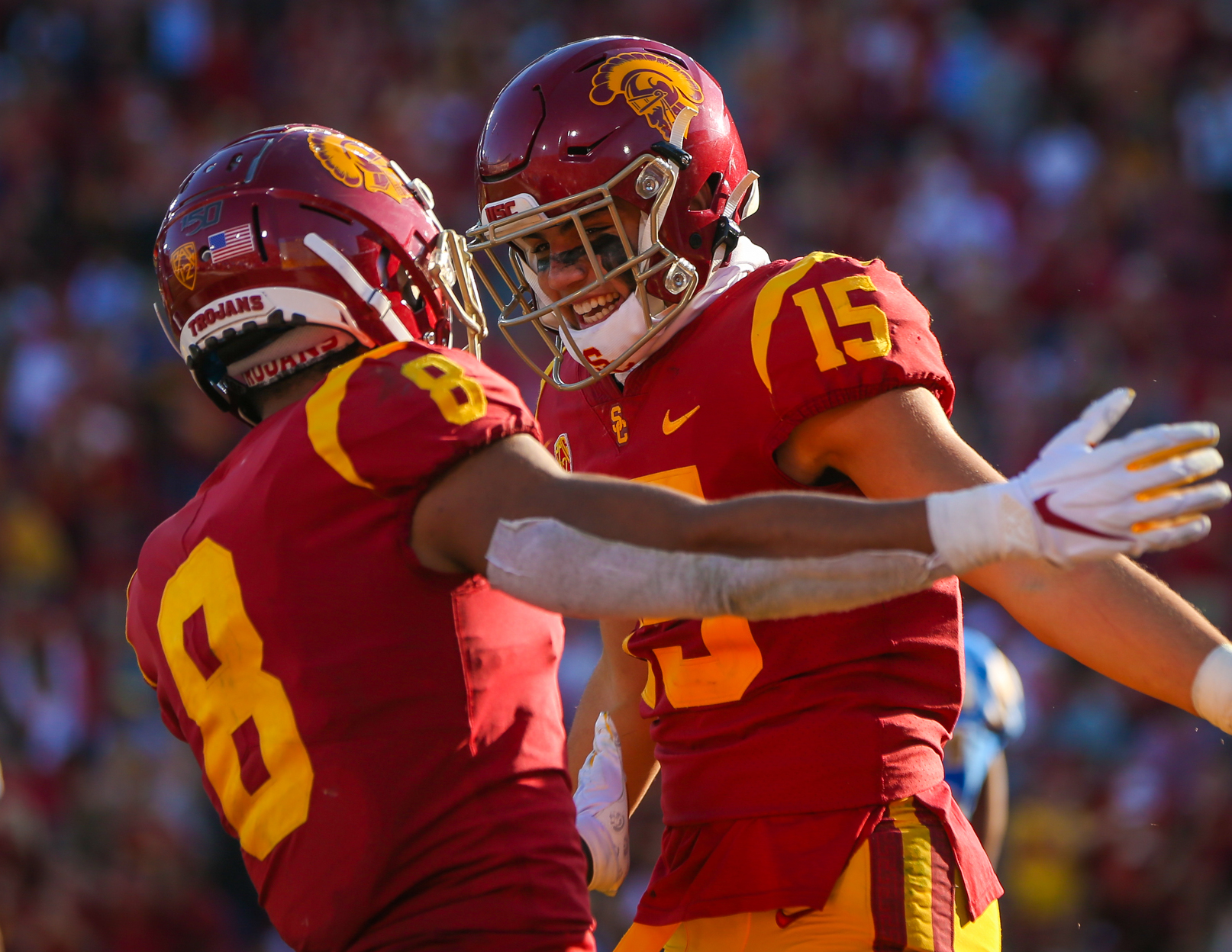 USC Trojans wide receiver Amon-Ra St. Brown (8) and Drake London celebrate after London's touchdown catch; UCLA at USC. November 23, 2019, Los Angeles, CA